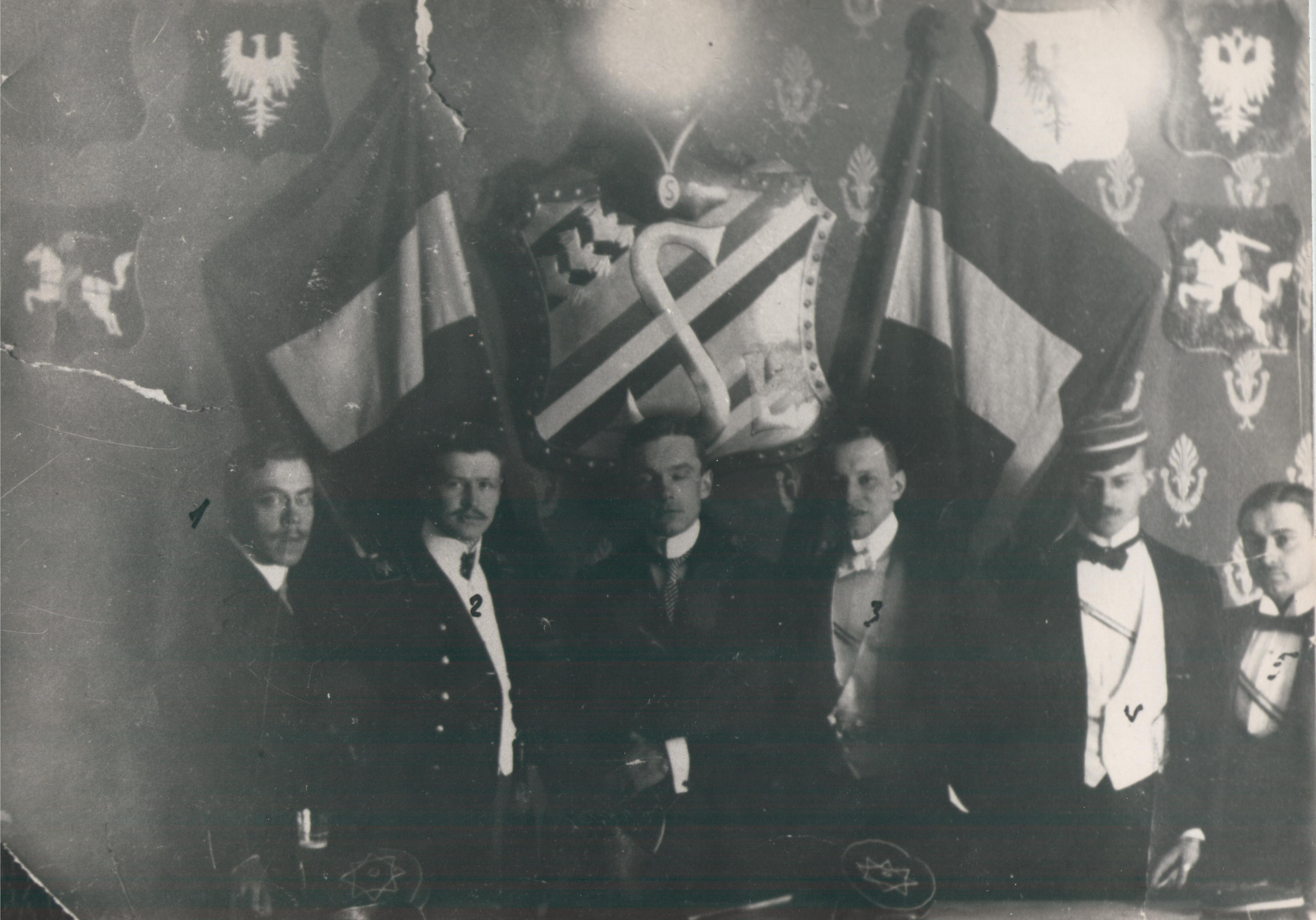 Corporation Sarmatia in Petersburg - 1910